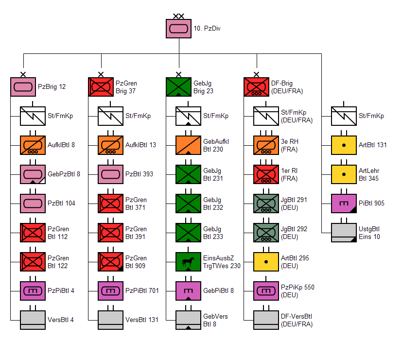 Organizational chart of the 10. Panzerdivision (Bundeswehr).